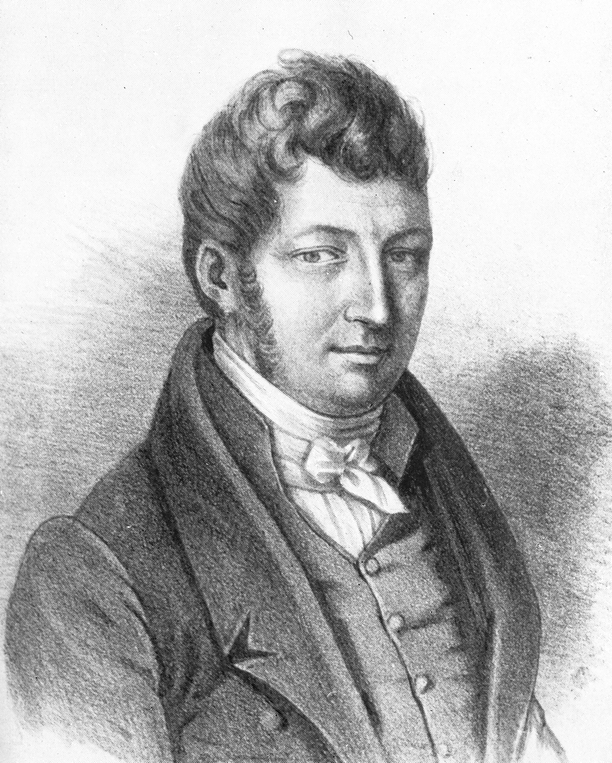 Swedish author Fredrik Cederborgh (1784-1835).